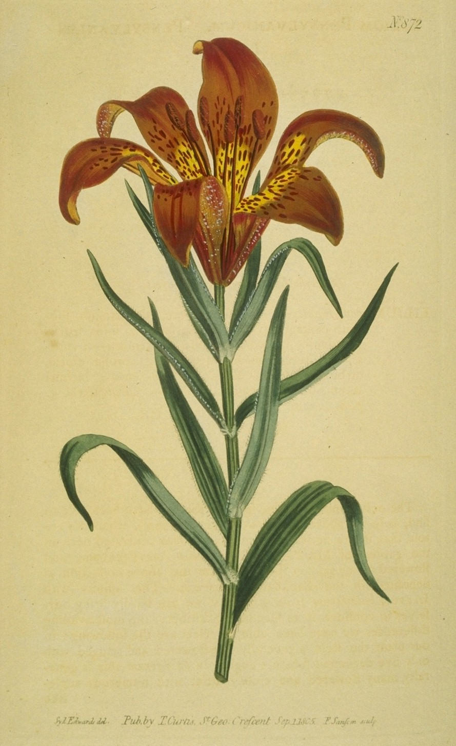 depicting the plant Lilium dauricum and given the title: Sierra Tigerlilie - Lilium pensylvanicum